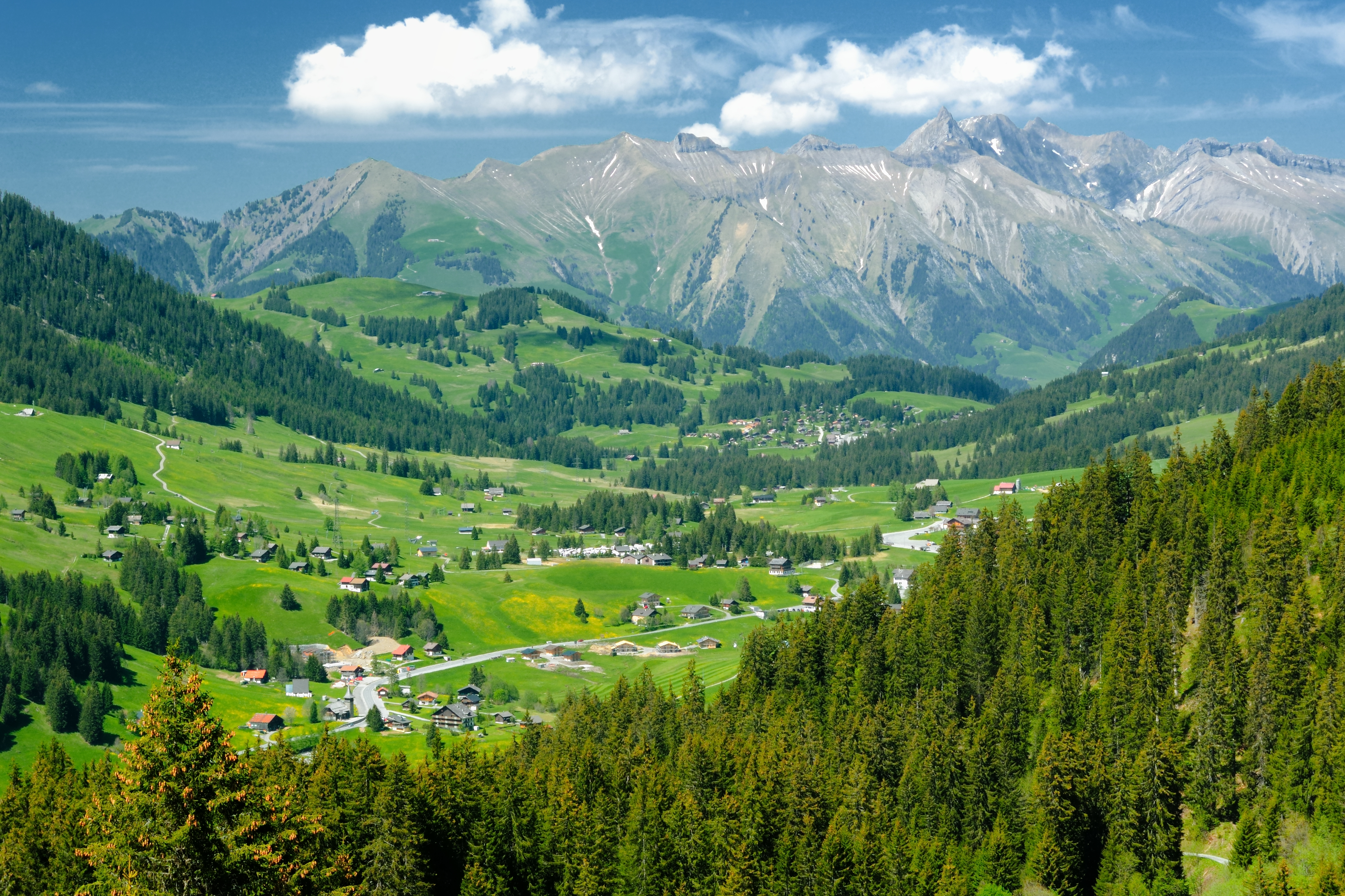 Les Mosses and La Lécherette from Oudiou